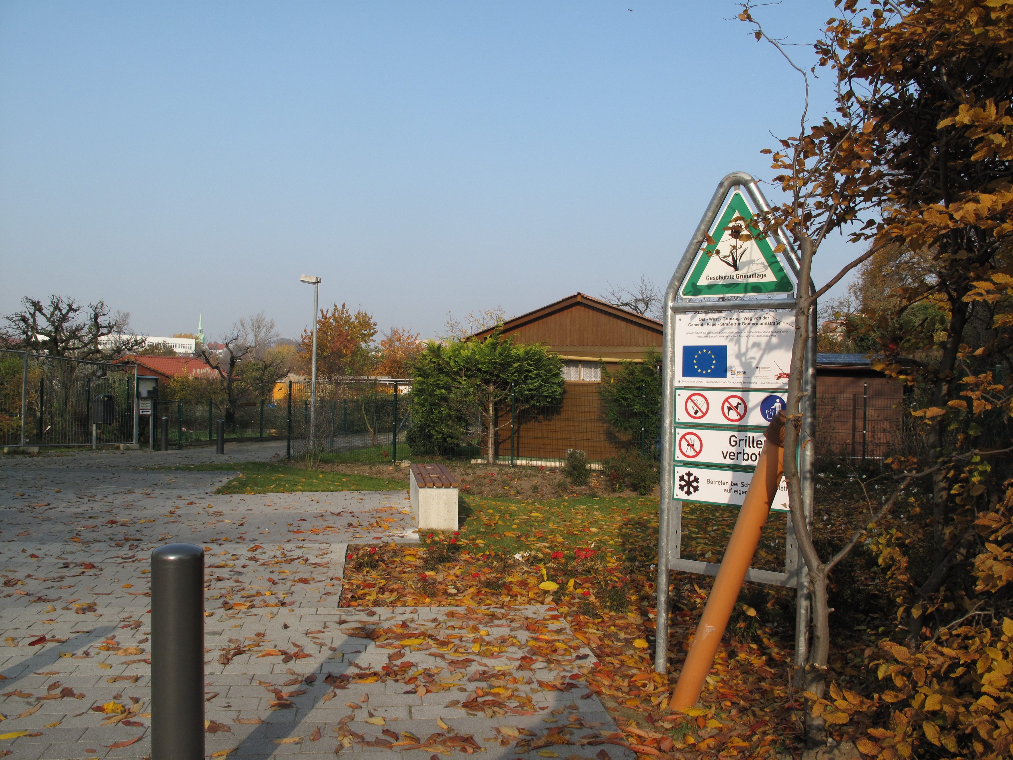 Hertha-Block-Promenade (Ost-West-Grünzug; german for: east-west-greenbelt) here in construction in November 2011. The greenbelt with the central Alfred-Lion-Steg connects the district Schöneberg from the Rote Insel (literally, Red Island) with the district Tempelhof at the General-Pape-Straße, Berlin, Germany. The greenbelt was opened in Novemver 2012.